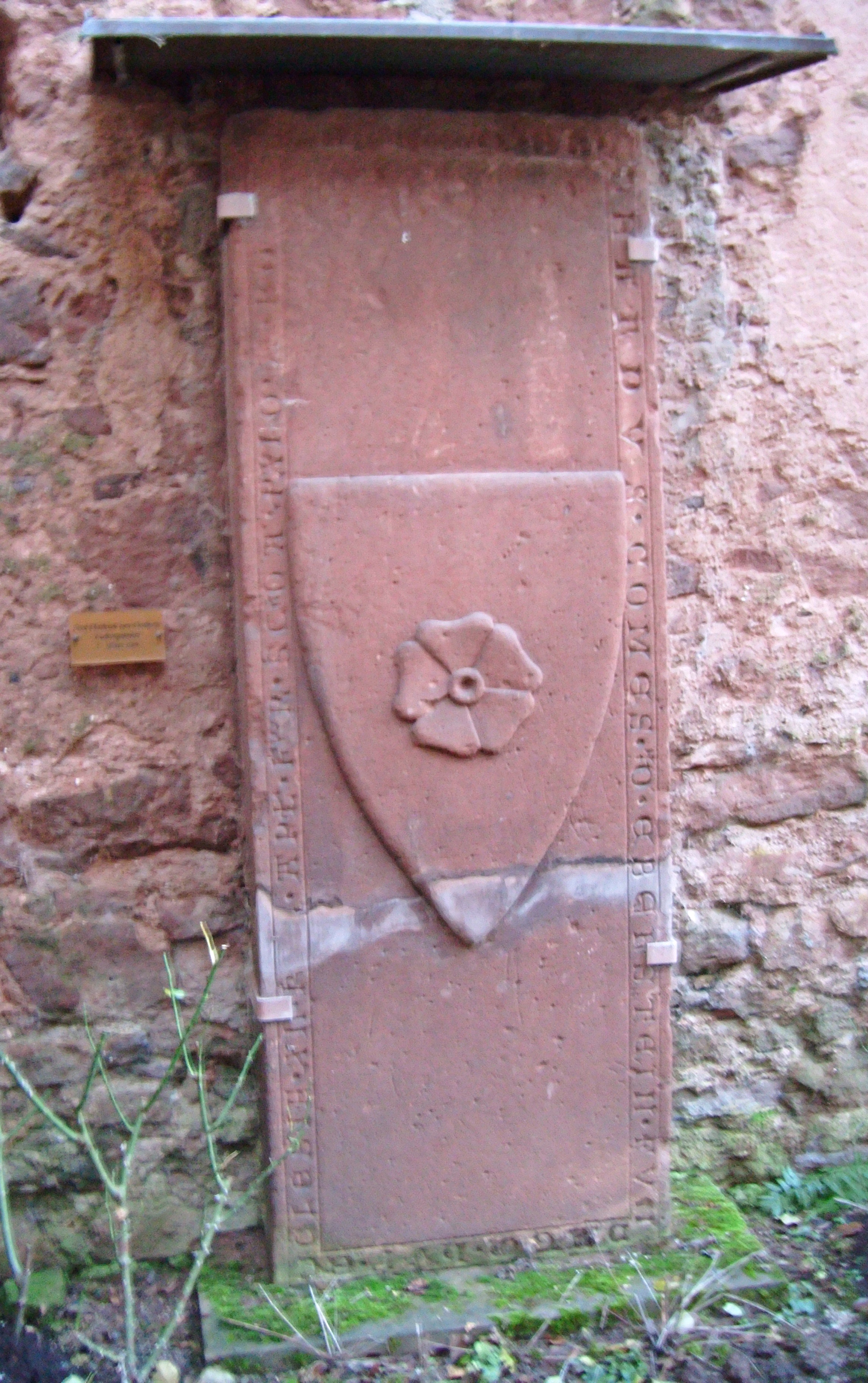 Grabplatte des Klosterstifters Graf Eberhard IV. von Eberstein (+ 1263), Kloster Rosenthal, Pfalz